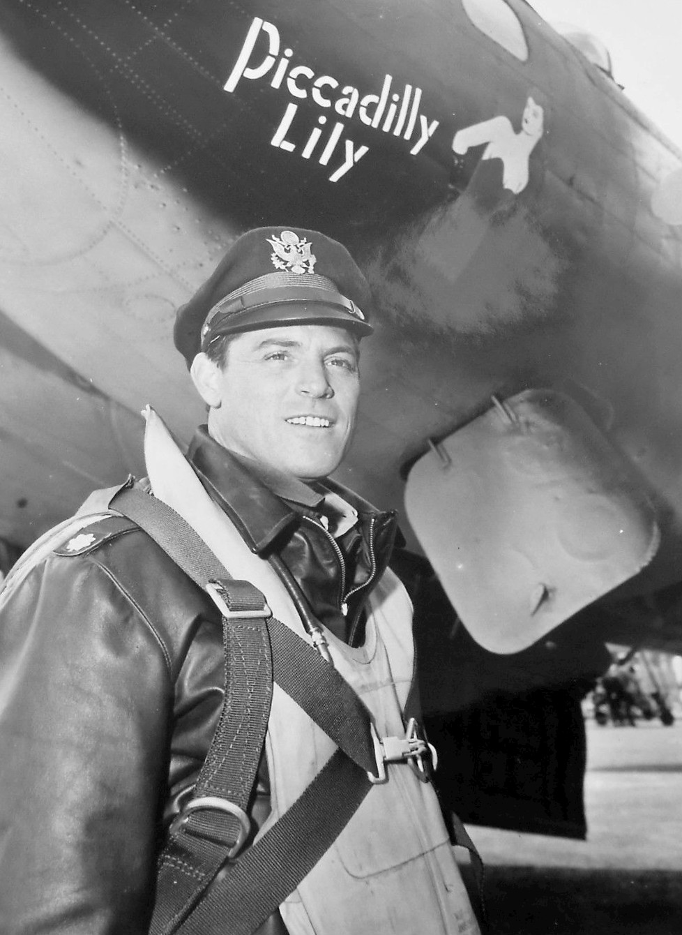 Paul Burke as Joe Gallagher from the television program Twelve O'Clock High.